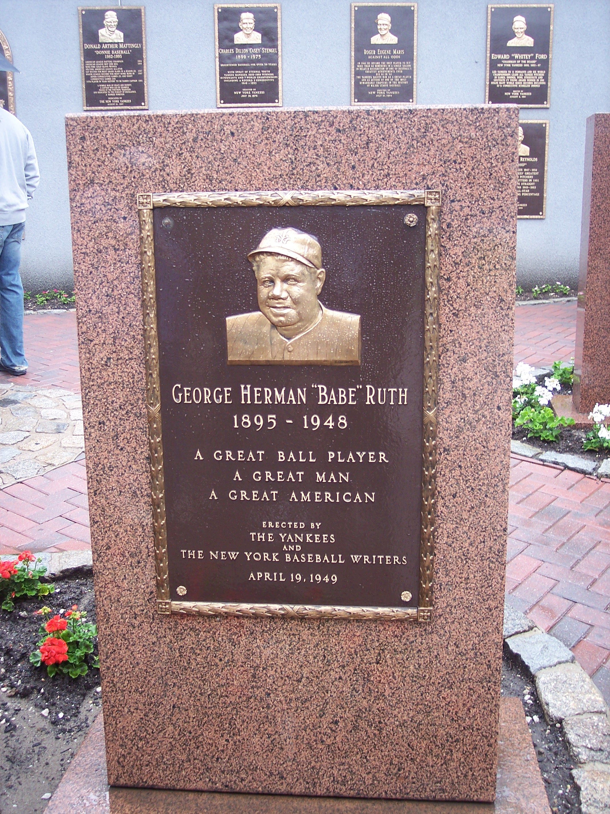 Source: I, the Silent Wind of Doom took the picture on a tour of Yankee Stadium 03:04, 14 November 2006 . . Silent Wind of Doom . . 2142×2856 (2,096,605 bytes)